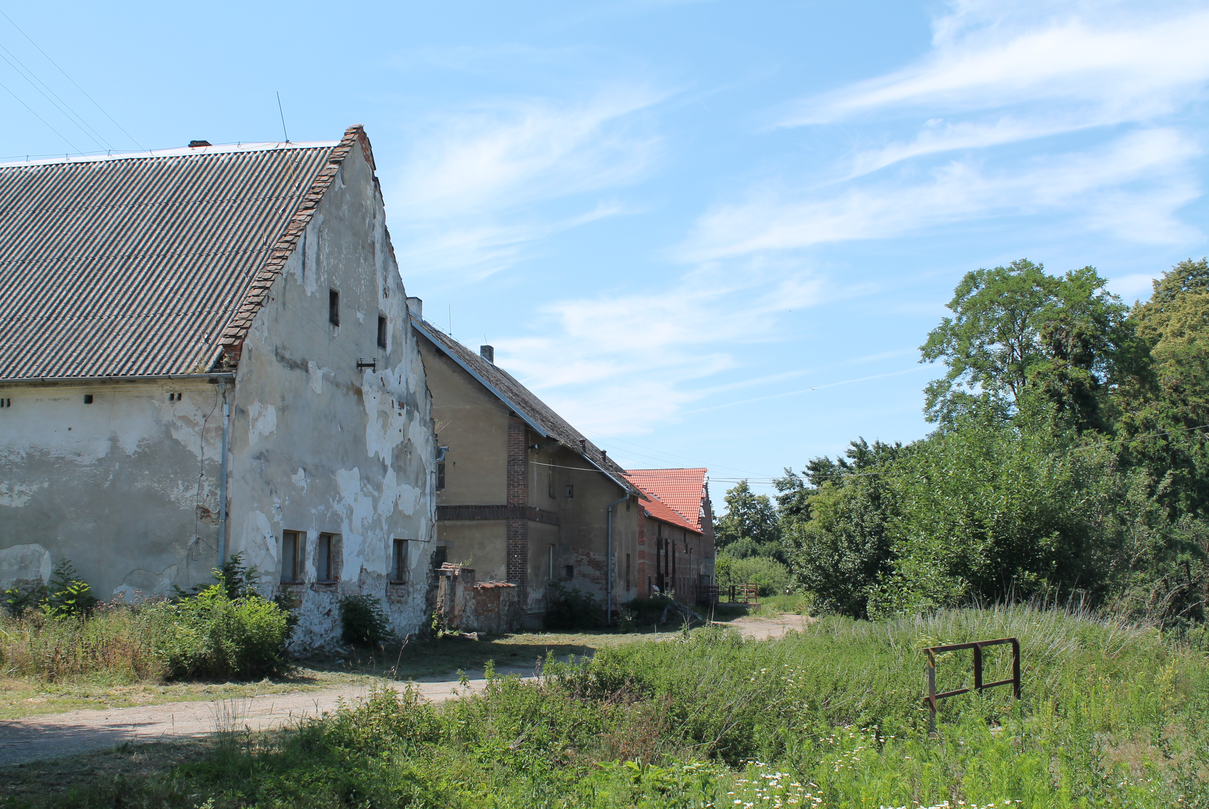 Dolívka, Předhradí, Chrudim District, Czech Republic